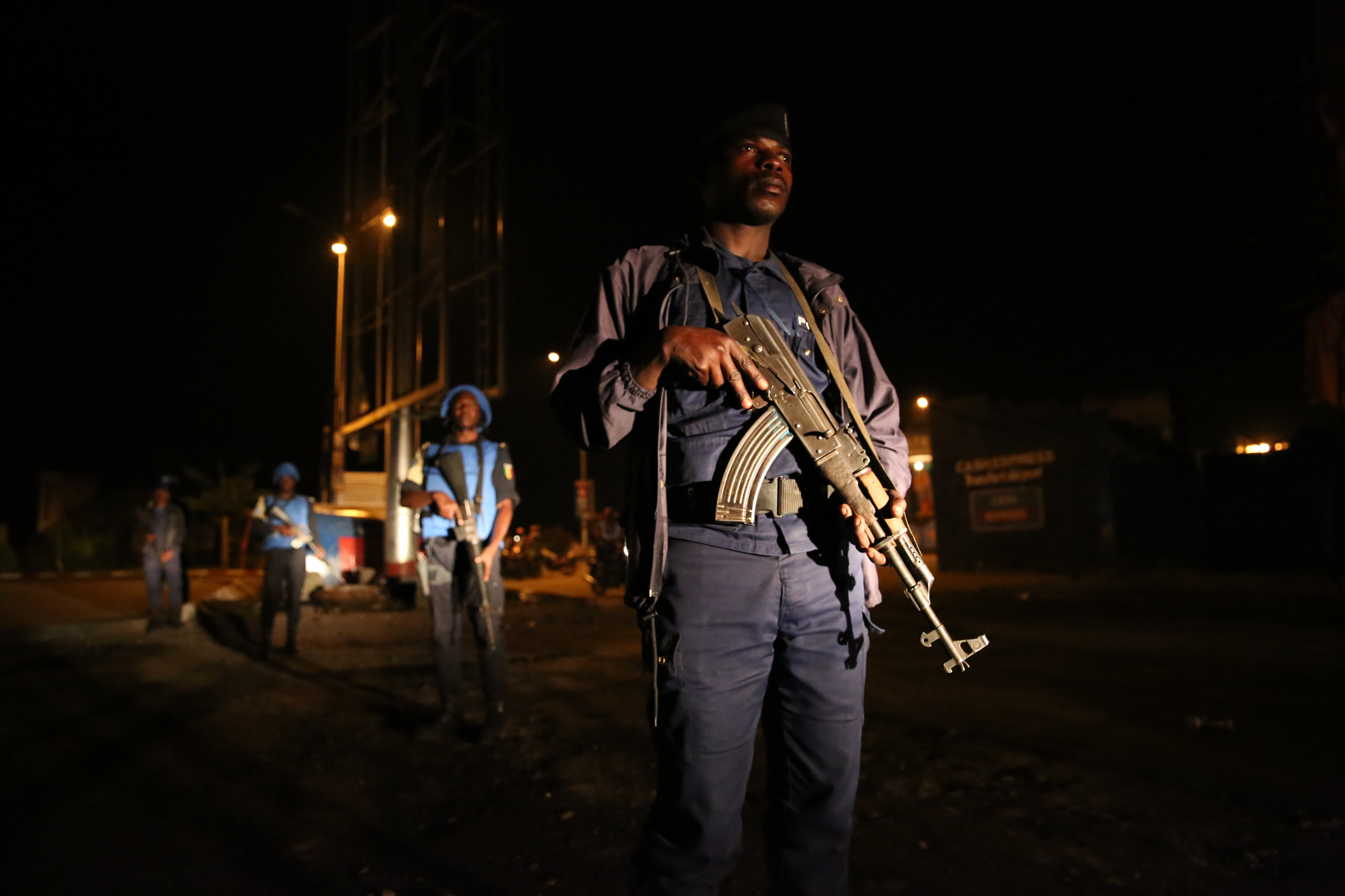 Goma, Nord Kivu, RD Congo. Un membre de la Police nationale congolaise (PNC) assure la sécurité de la population civile lors d'une patrouille nocturne pédestre conjointe UNPOL-PNC. Photo MONUSCO/Abel Kavanagh = Goma, North Kivu, DR Congo. A member of the Congolese National Police (PNC) ensures the safety of the civilian population during a joint UNPOL-PNC night foot patrol. Photo MONUSCO/Abel Kavanagh